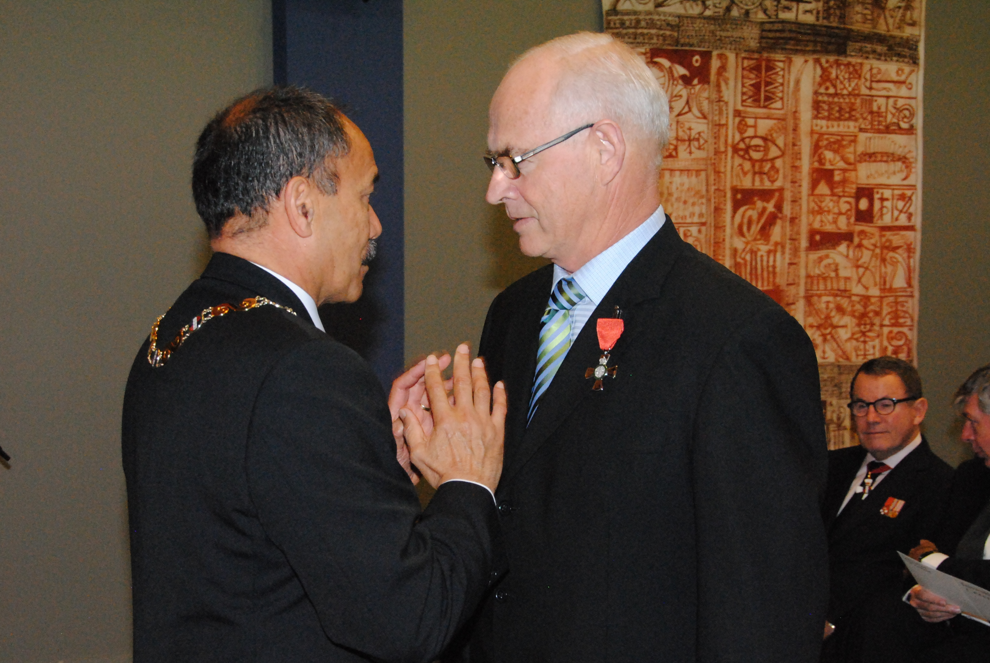 Dr Anthony Lanigan (right), of Auckland, at his investiture as a Member of the New Zealand Order of Merit, for services to tertiary education and the community, by the governor-general, Sir Jerry Mateparae, on 9 May 2013